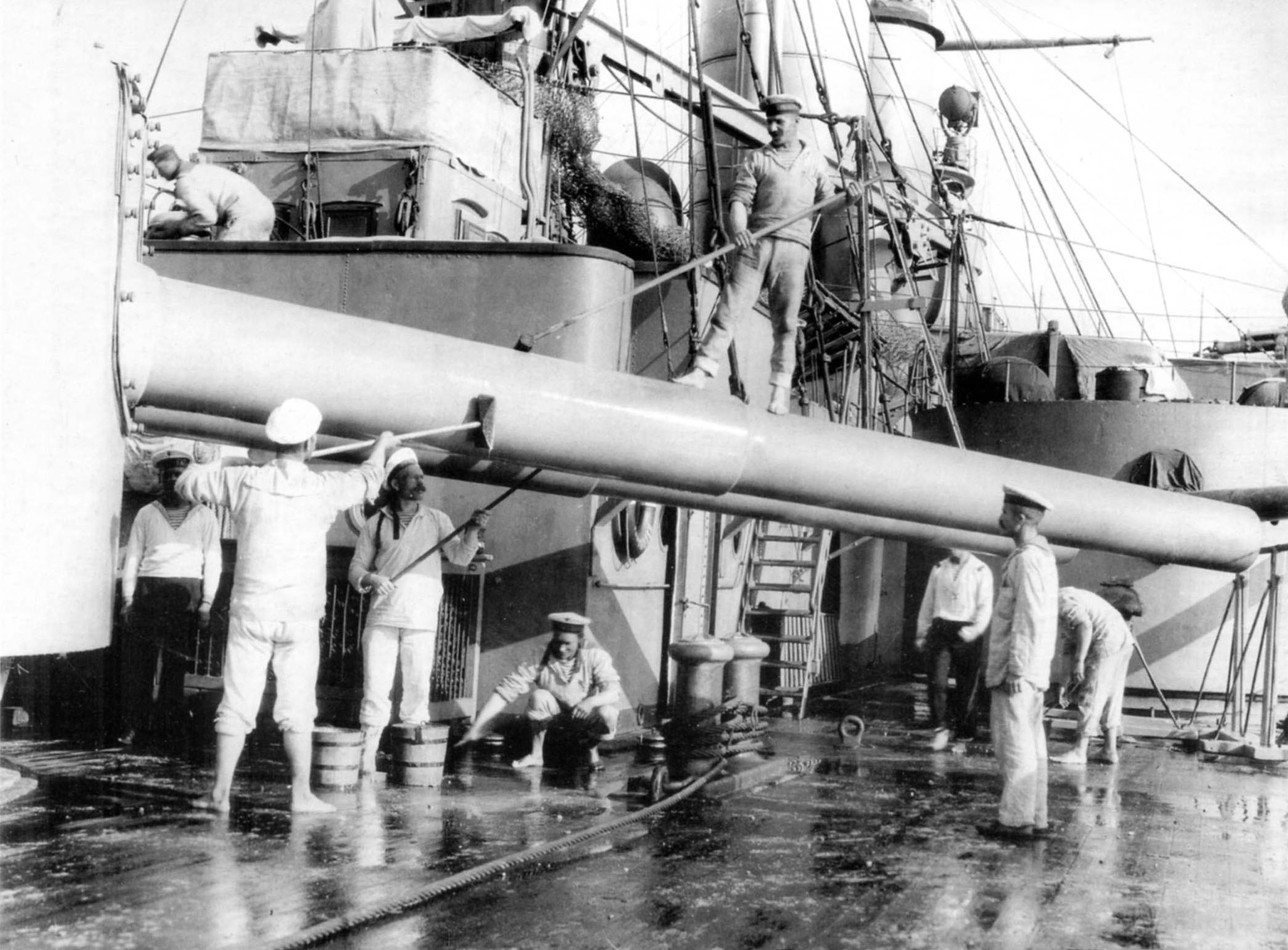 Imperial Russian battleship Rostislav.